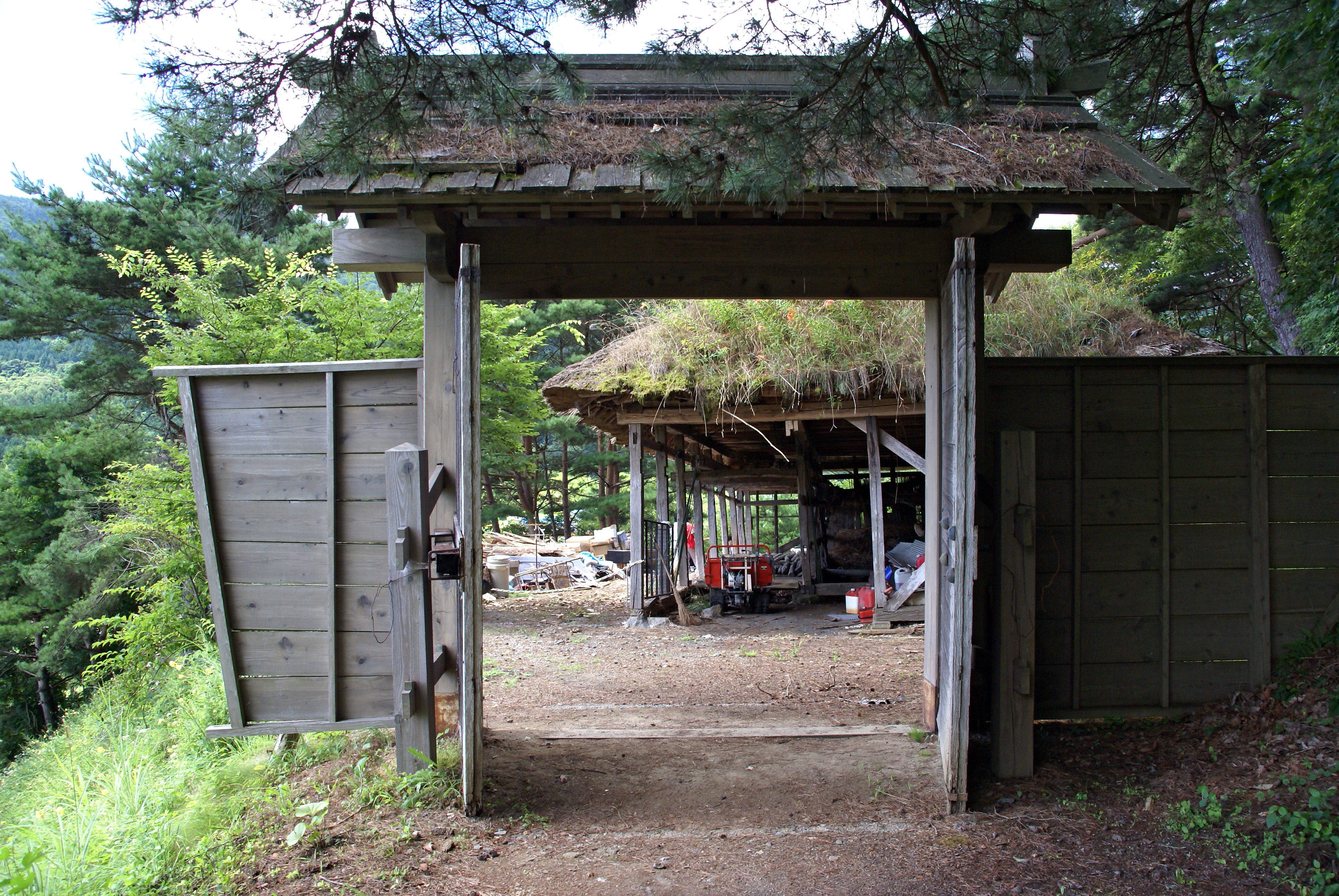 Chiba curvature house in Tono, Iwate prefecture, Japan